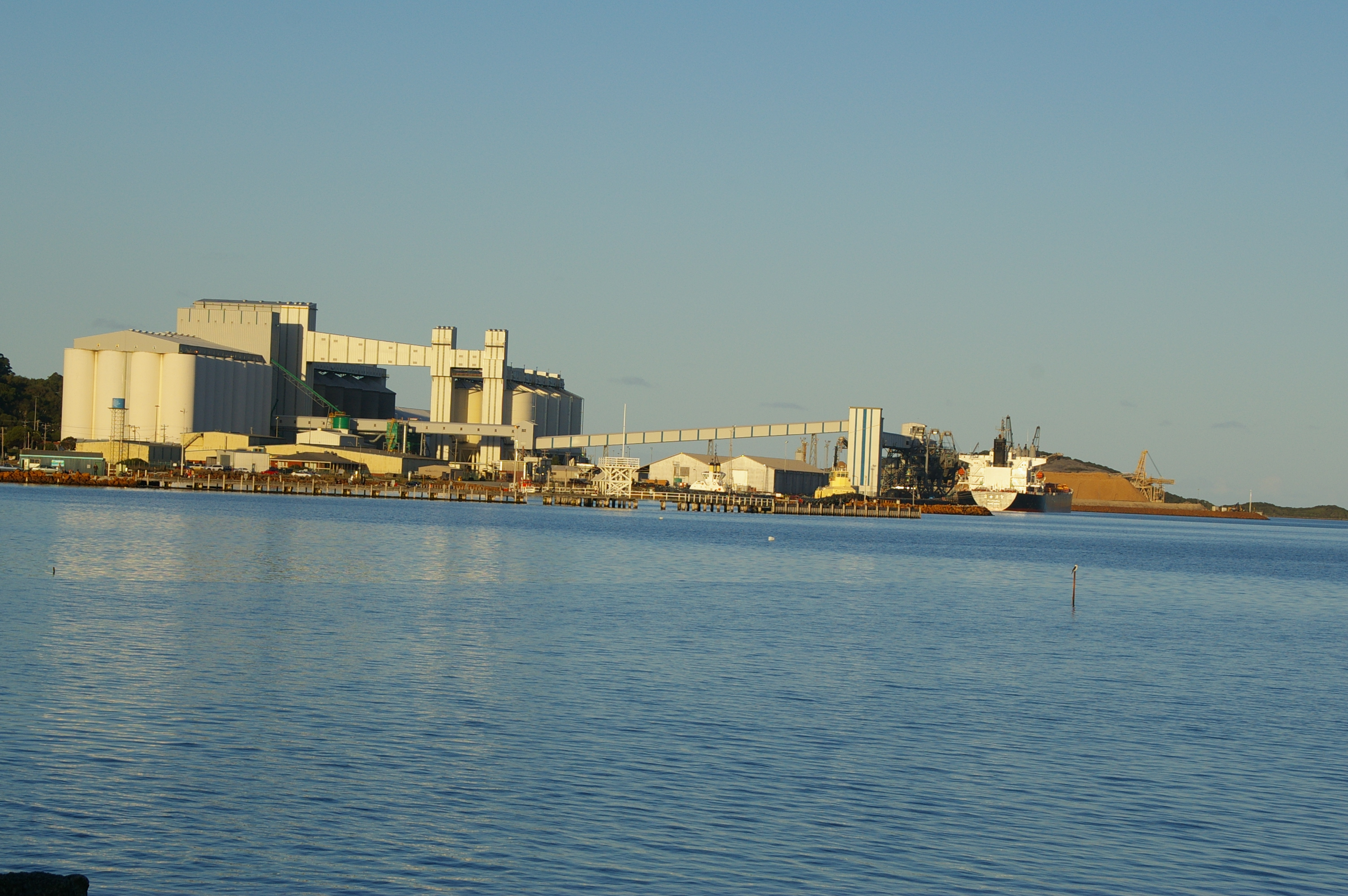 Photo of the Port of Albany taken from Princess Royal Harobour to the western side of the port